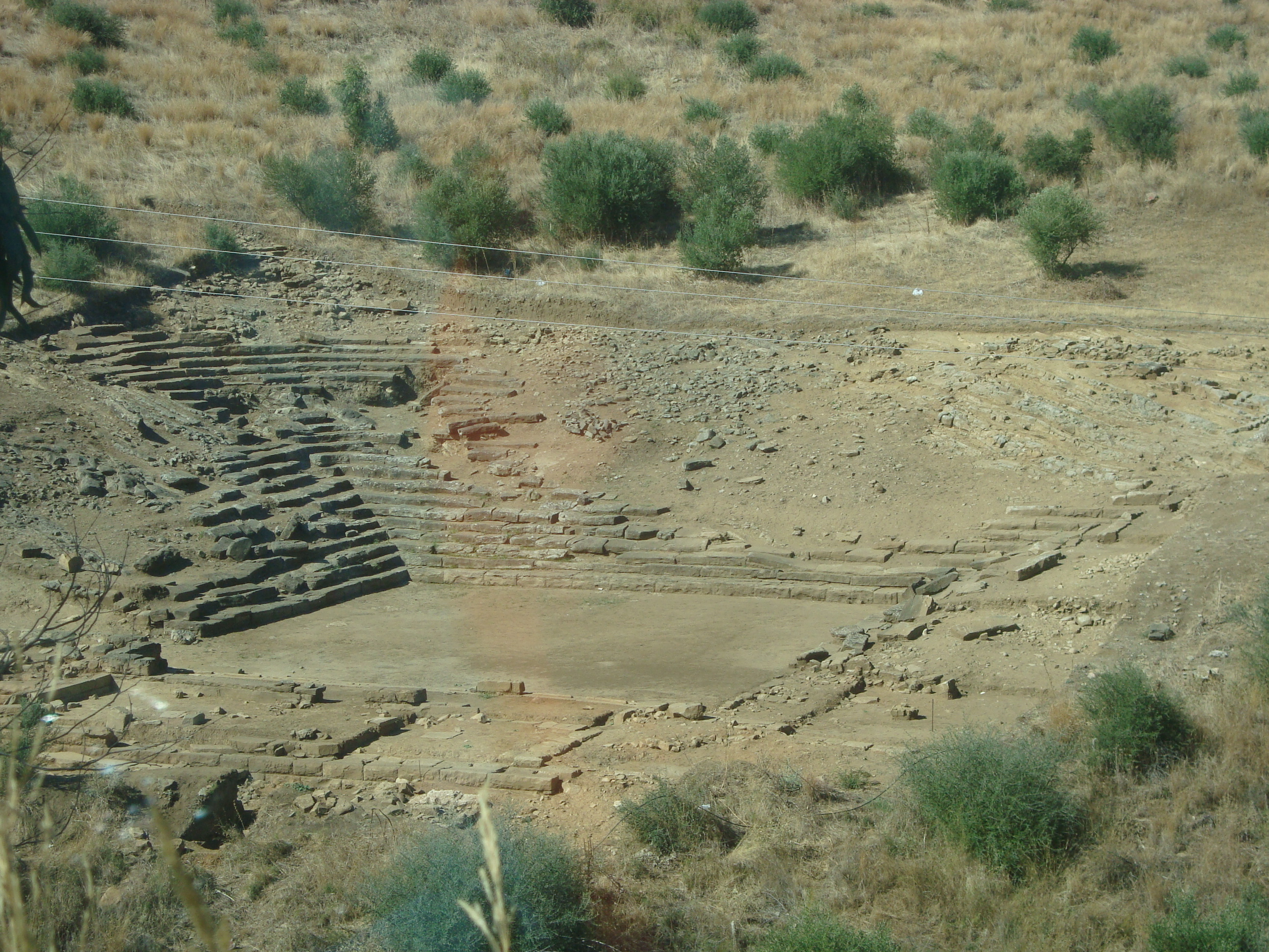 Ancient city Kalydon